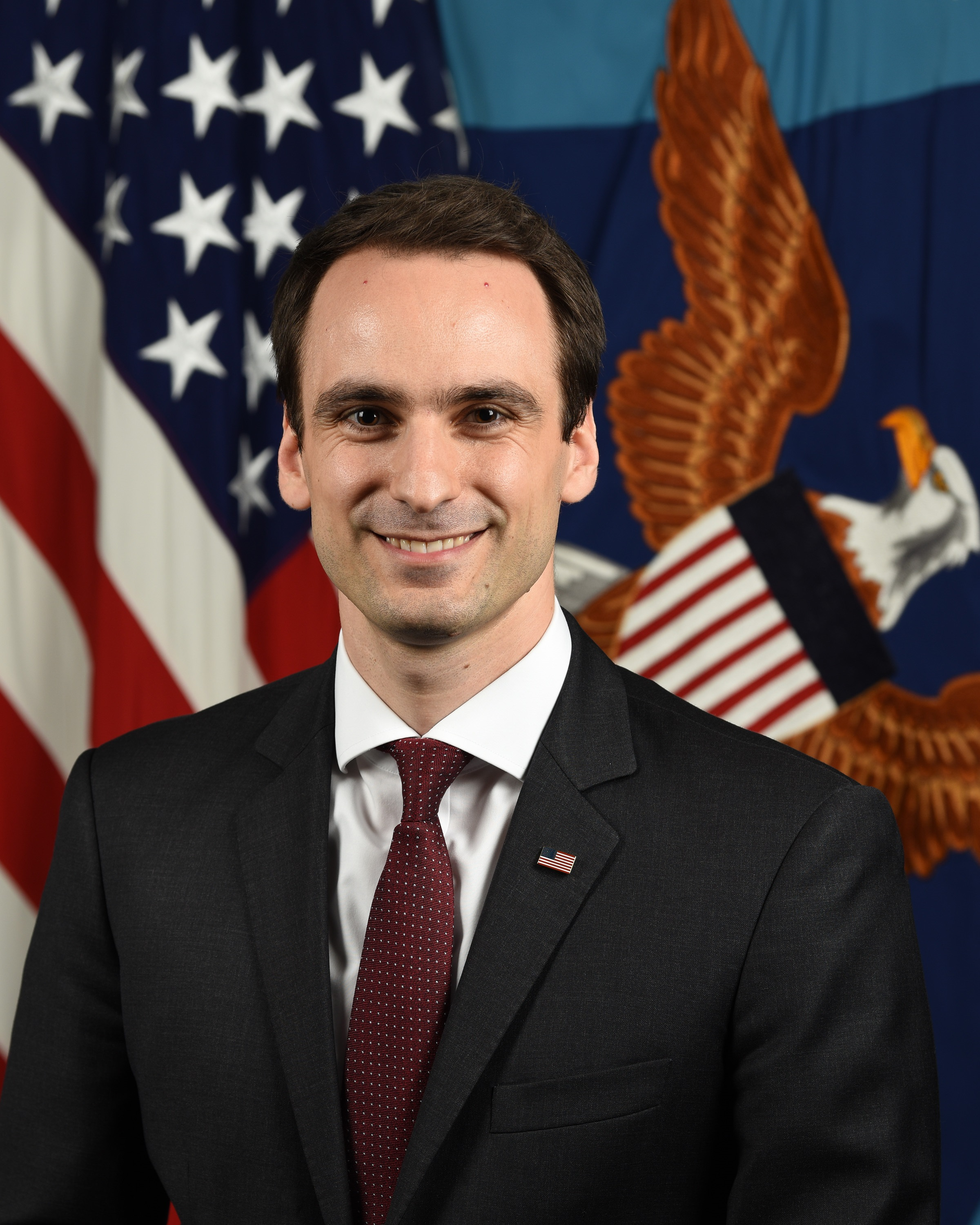 Mr. Michael Kratsios, Acting Under Secretary of Defense for Research and Engineering, poses for his official portrait in the Army portrait studio at the Pentagon in Arlington, Va, July 21, 2020. (U.S. Army photo by William Pratt)